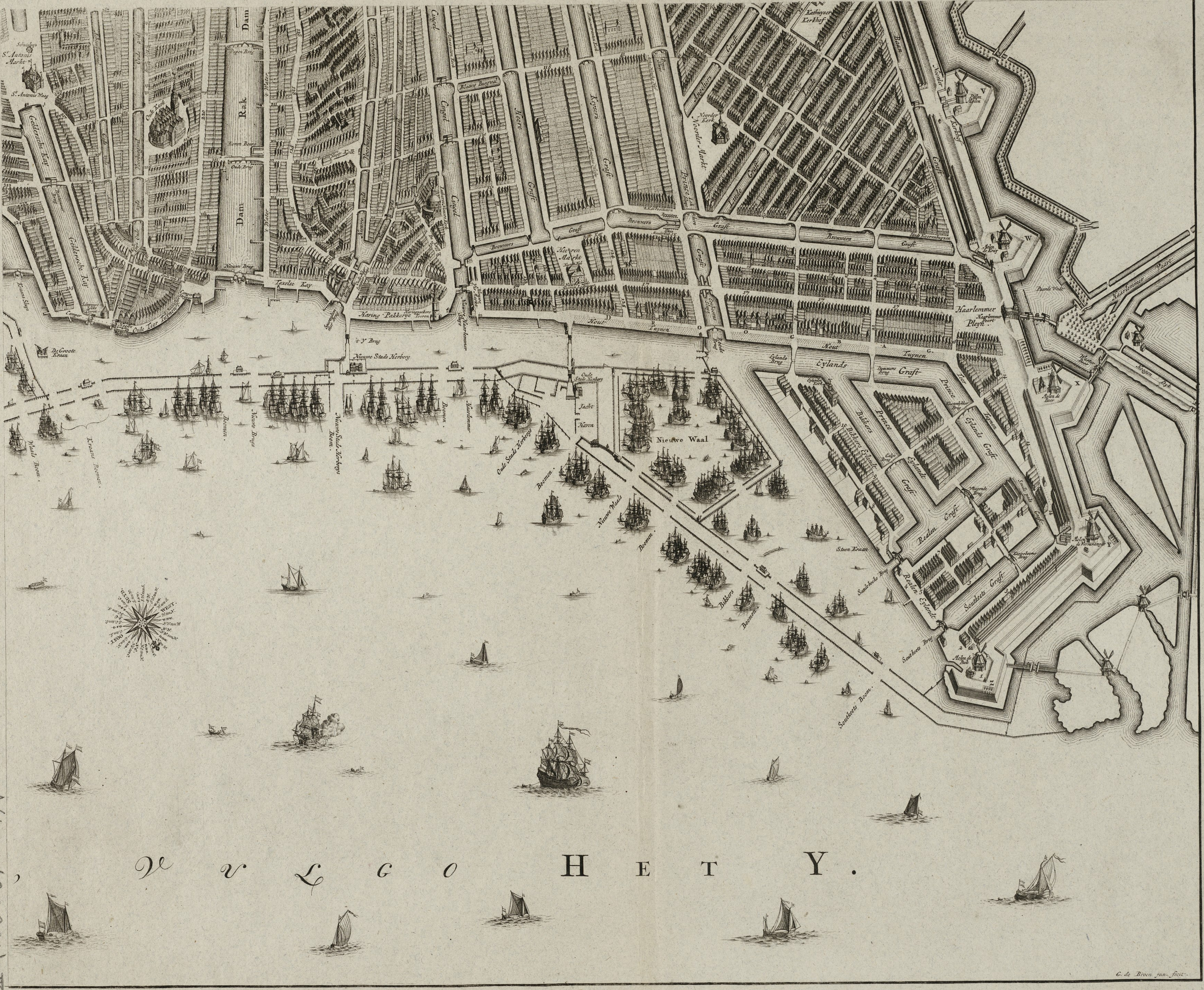 Map of Amsterdam by Gerrit de Broen, dated ~1782. Part 4 of a 4-part map.